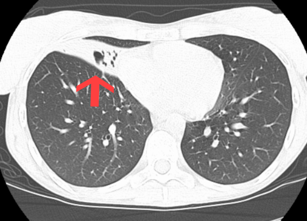 CT scan of patient with right middle lobe atelectasis, consistent with Lady Windermere syndrome. Signed consent for release obtained from patient -- Samir 04:25, 6 October 2007 (UTC)